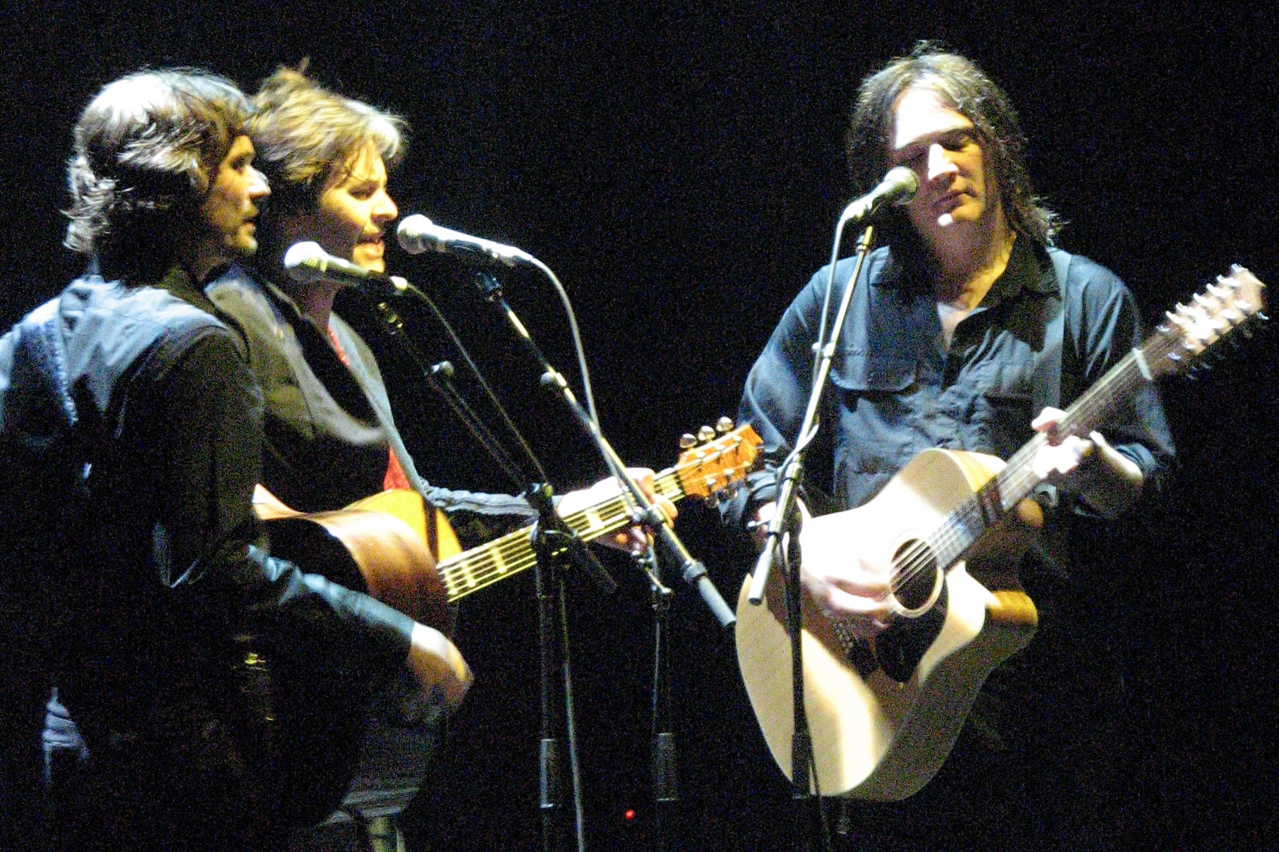 l-r: Darren Middleton, Bernard Fanning and Ian Haug, (guitarist, lead vocals, guitarist), members of Australian rock band Powderfinger at a September 2007 concert in Sydney.